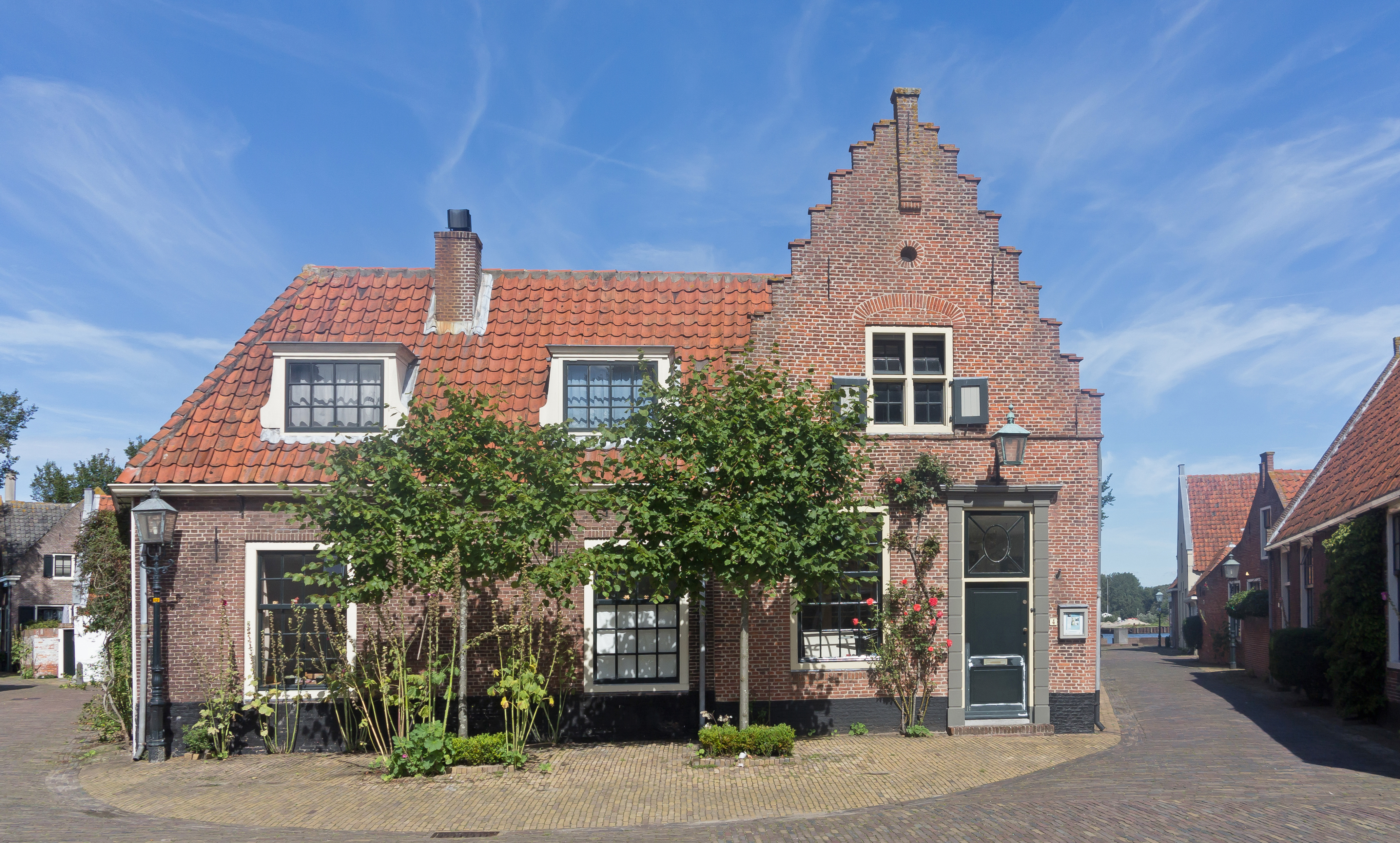 Velsen, monumental house at de Torenstraat